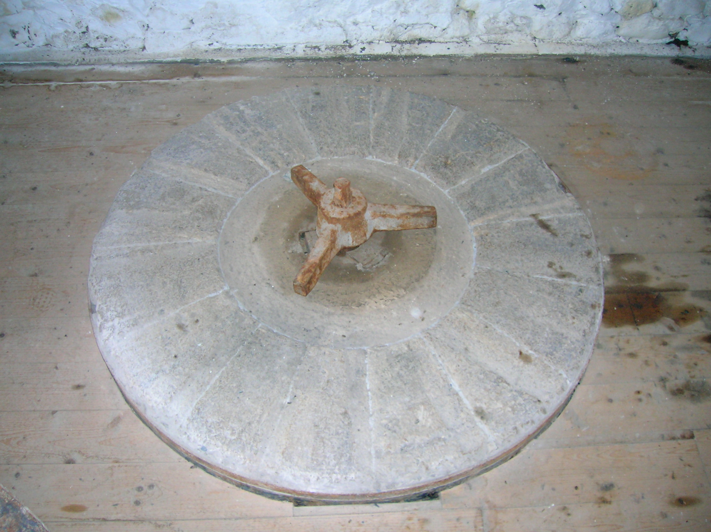 The Bedstone millstone with the metal rind above it. Dalgarven Mill, North Ayrshire, Scotland